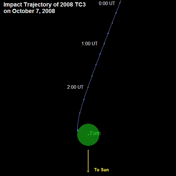 Trajectory of asteroid 2008 TC3